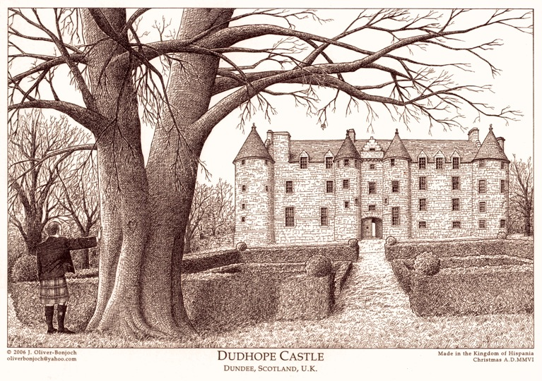 J. Oliver-Bonjoch's drawing of Dudhope Castle. It is an ideal reconstruction of the facade of Dudhope Castle before the transformations of the nineteenth century.